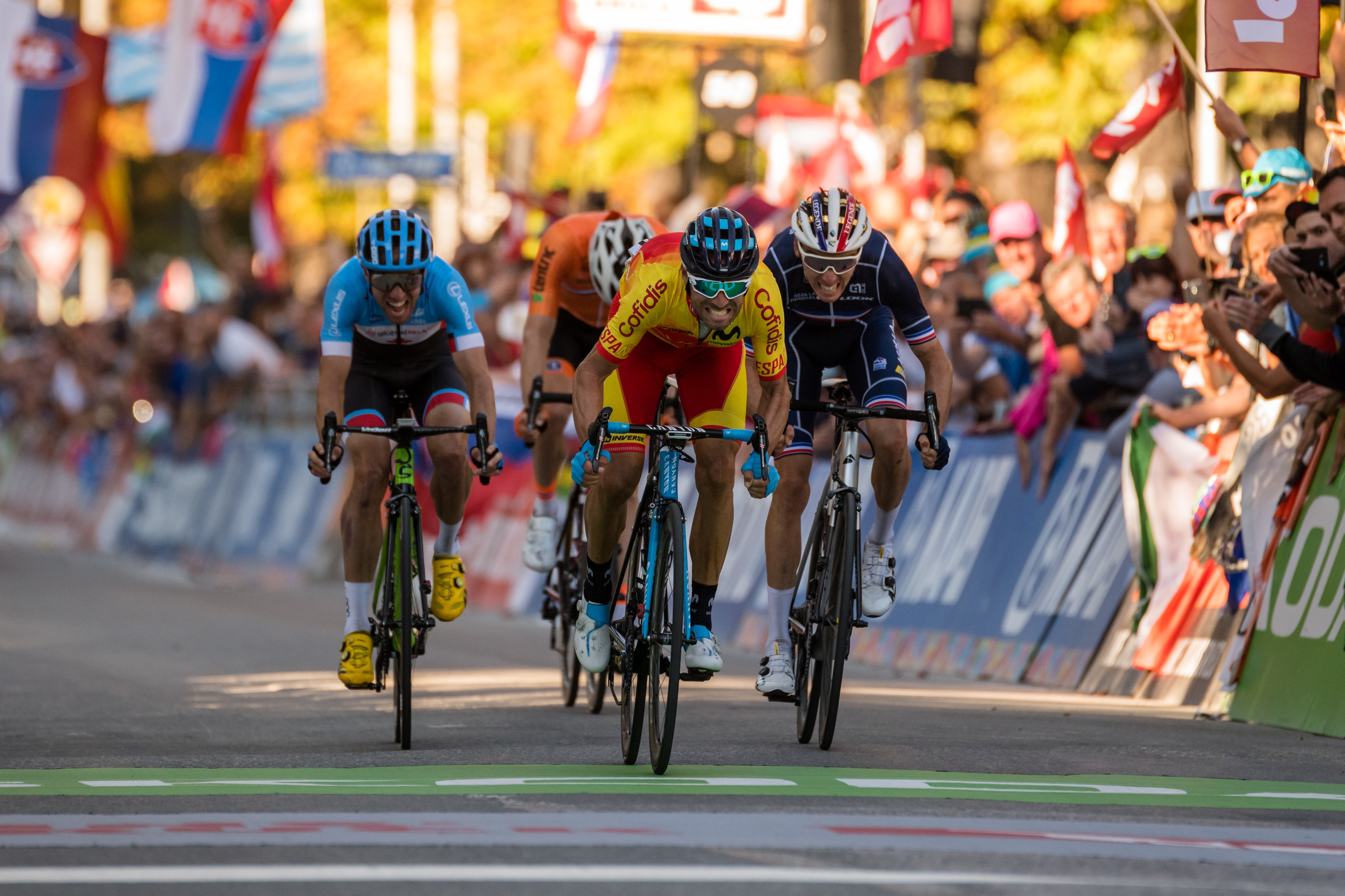 2018 UCI Road World Championships Innsbruck/Tirol Men Elite Road Race. Picture shows: Alejandro Valverde of Spain wins the final sprint against Romain Bardet of France, Michael Woods of Canada and Tom Dumoulin of the Netherlands